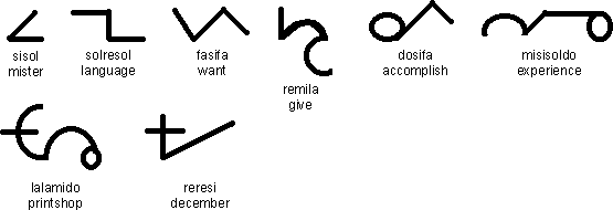 An example of how words are formed in Solresol.